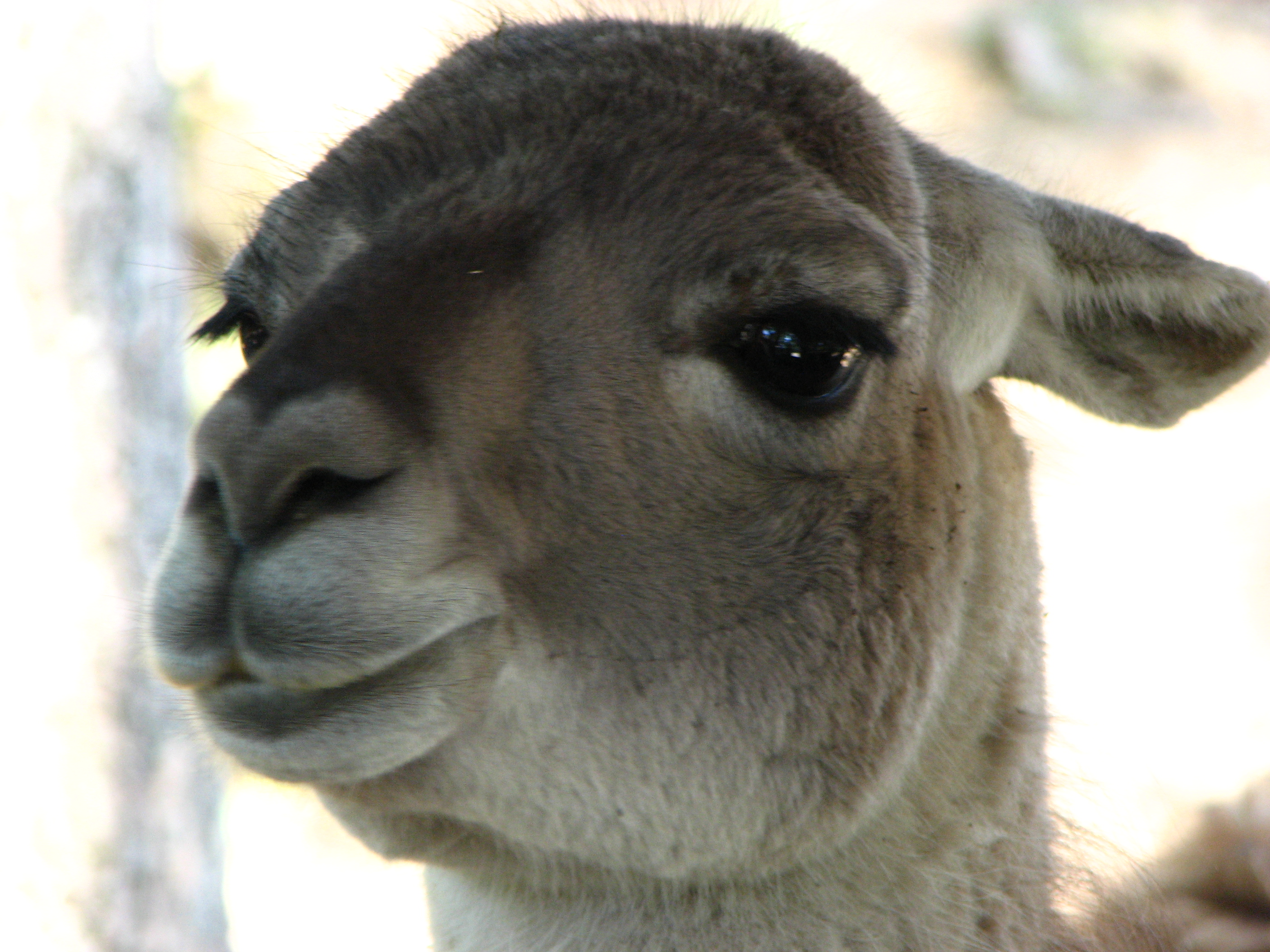 Closeup of a Llama from Kristiansand Zoo and Amusement Park in Kristiansand, Norway.